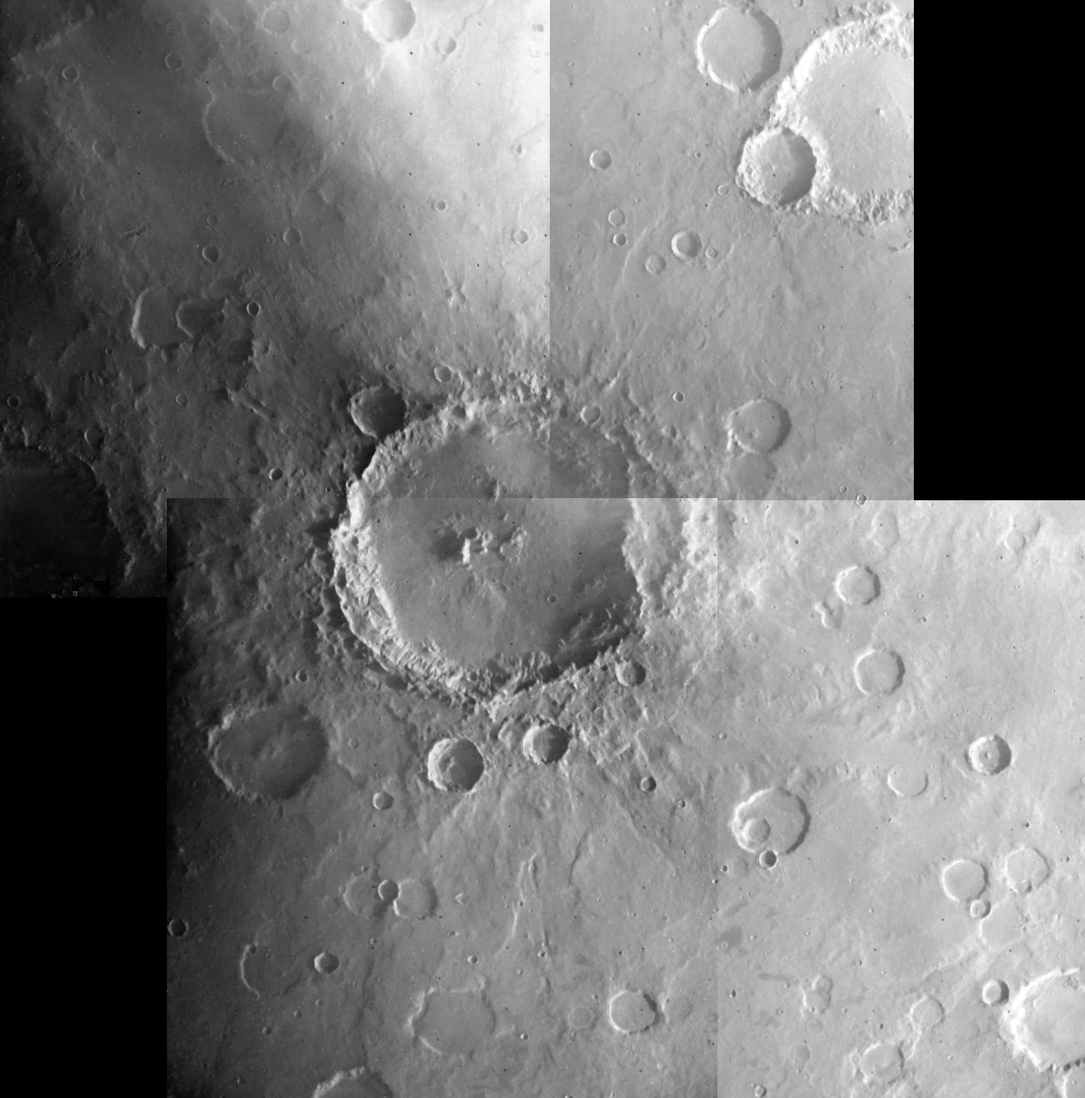 Lohse crater on Mars. Mosaic of two Viking 1 images from camera A (093A03, 093A05, at bottom) and two from camera B (093A02, 093A04, at top). Clear filter was used for these images. All images were despeckled prior to mosaicing. Resolution is about 240 m/pixel. North is at upper right. Statistics below are for the lower left camera A image: Emission Angle: 19.0 Incidence Angle: 84.6 Latitude: -45.2 Longitude: 344.6 Phase Angle: 81.6